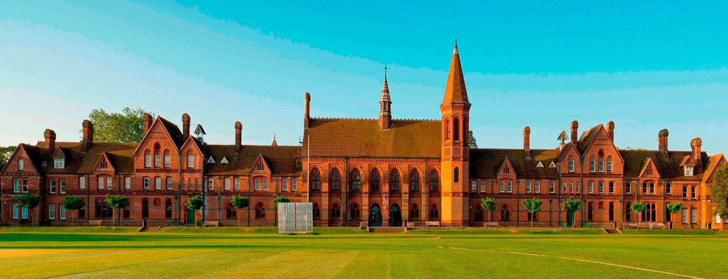 A picture of Reading School